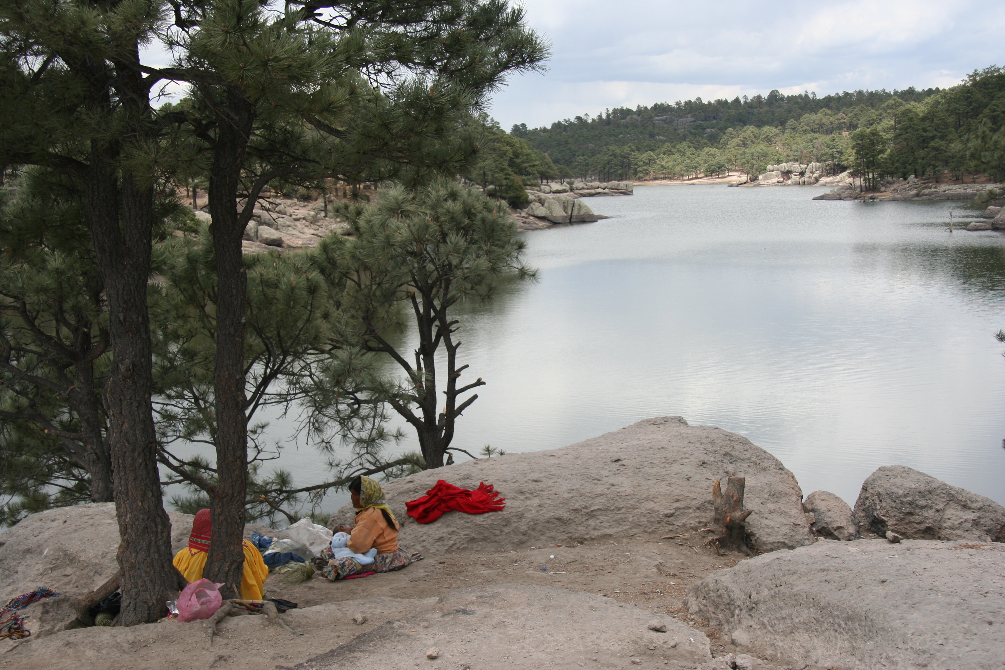 Two Tarahumara women (one with a baby nursing) at Arareco Lake near Creel, Chihuahua, Mexico. The Tarahumara are indigenous people of the Sierra Madre Occidental mountains in the state of Chihuahua in Mexico. The Tarahumara women wear the traditional, brightly colored clothes they are famous for. These women make and sell hand-made items at the lake.